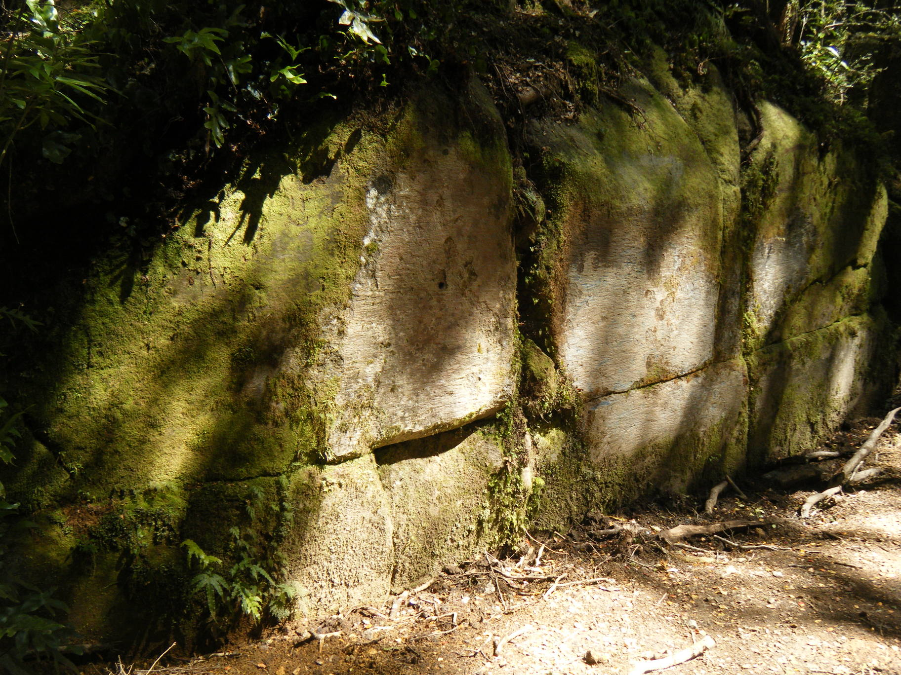 The Kaimanawa wall. A Rock formation on Clements Mill Road in Kaimanawa Forest Park, New Zealand. It has distinctive straight edges.